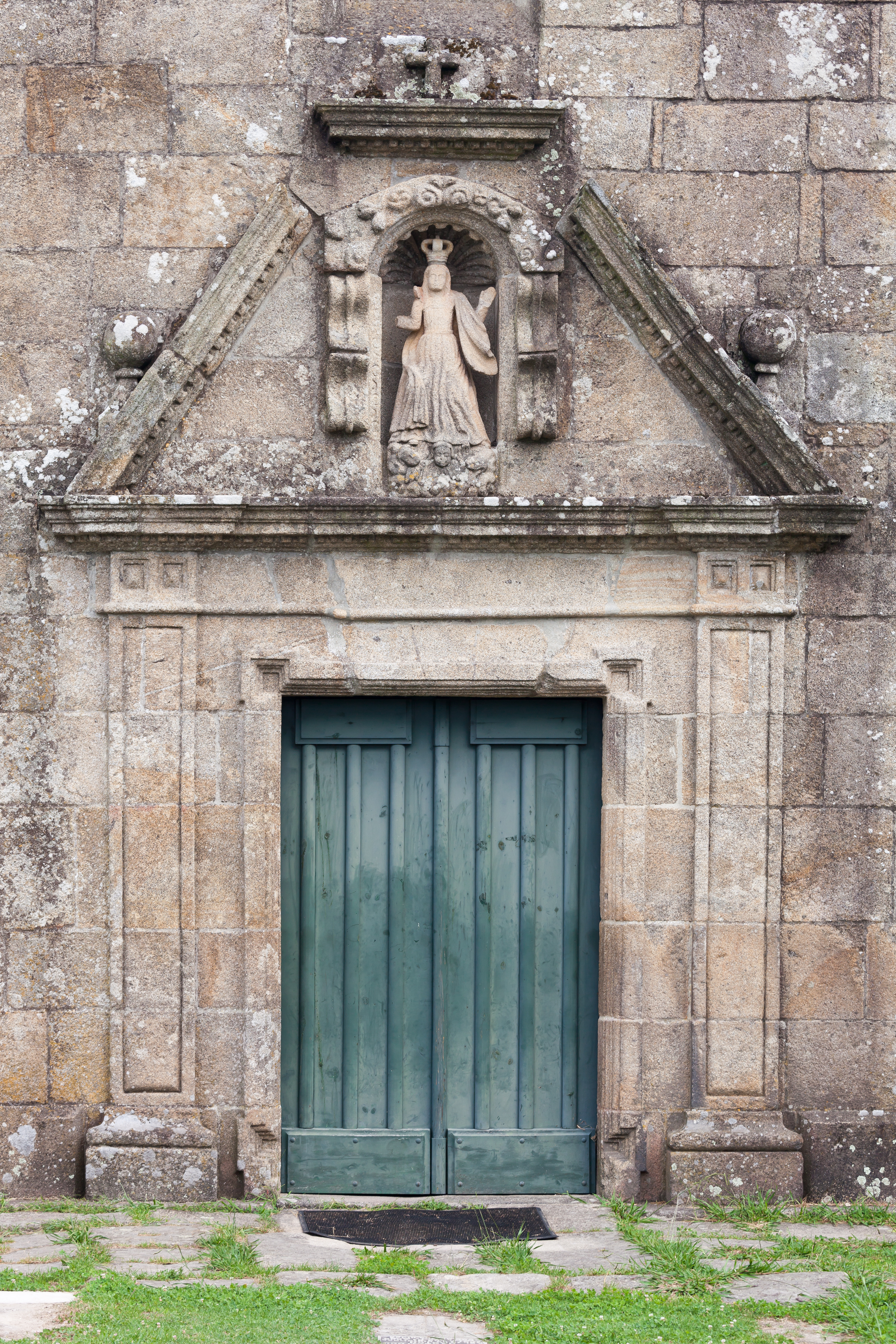 Parish church of Dodro, Dodriño, Dodro, Galicia (Spain)